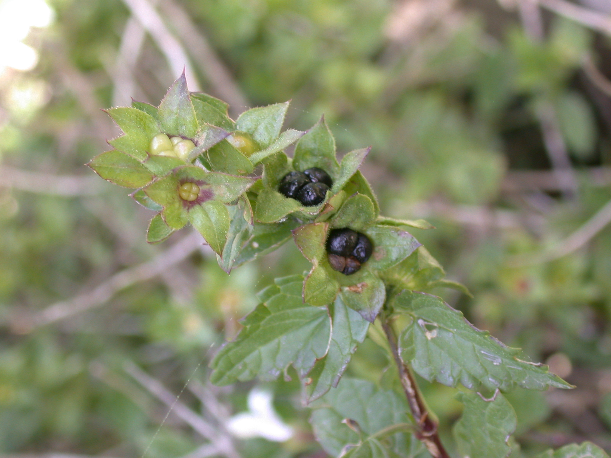 Fruits of Prasium majus, Reches Etzba, Mount Carmel, Israel, March 12, 2006.